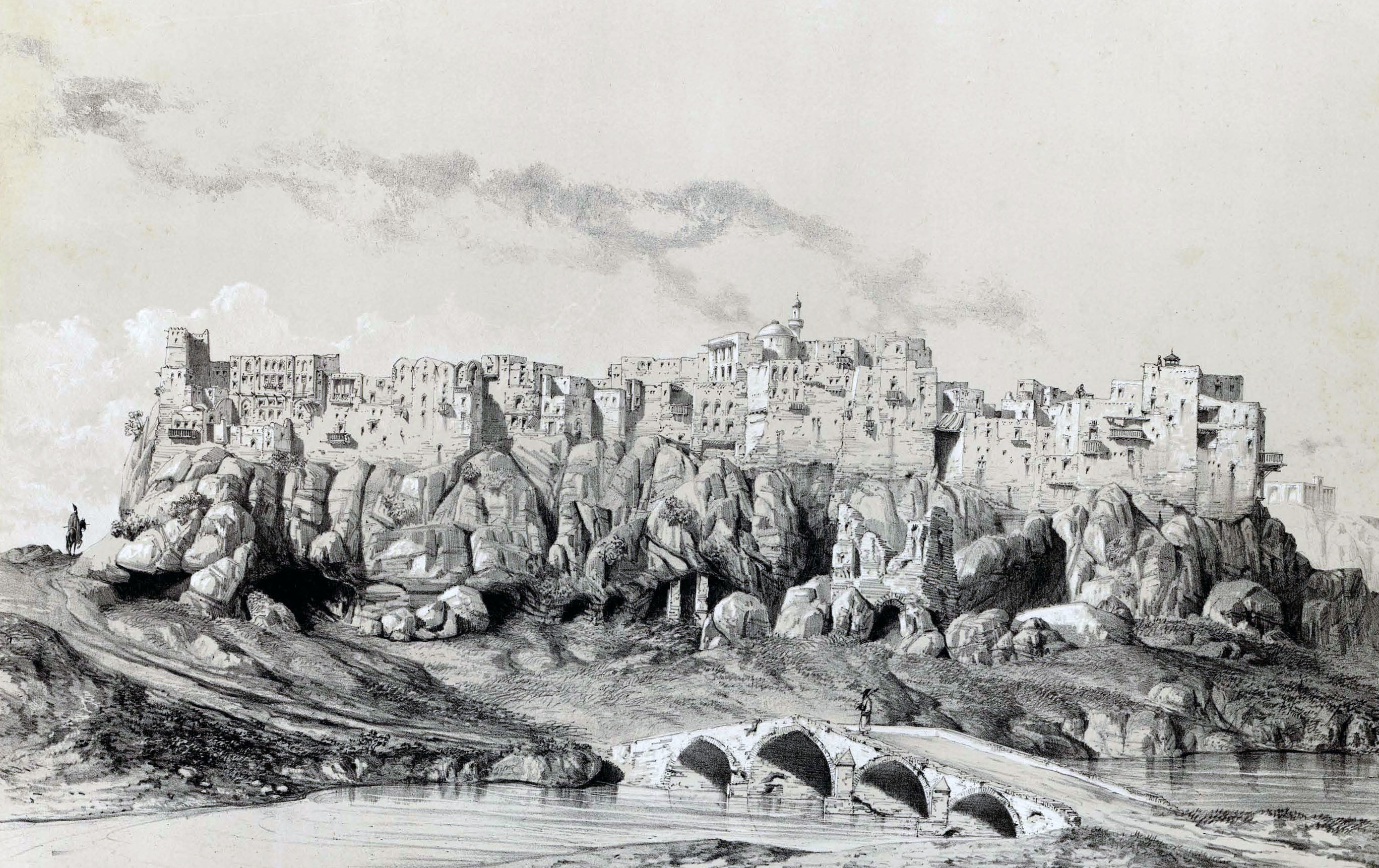 Yezd-i-Kast